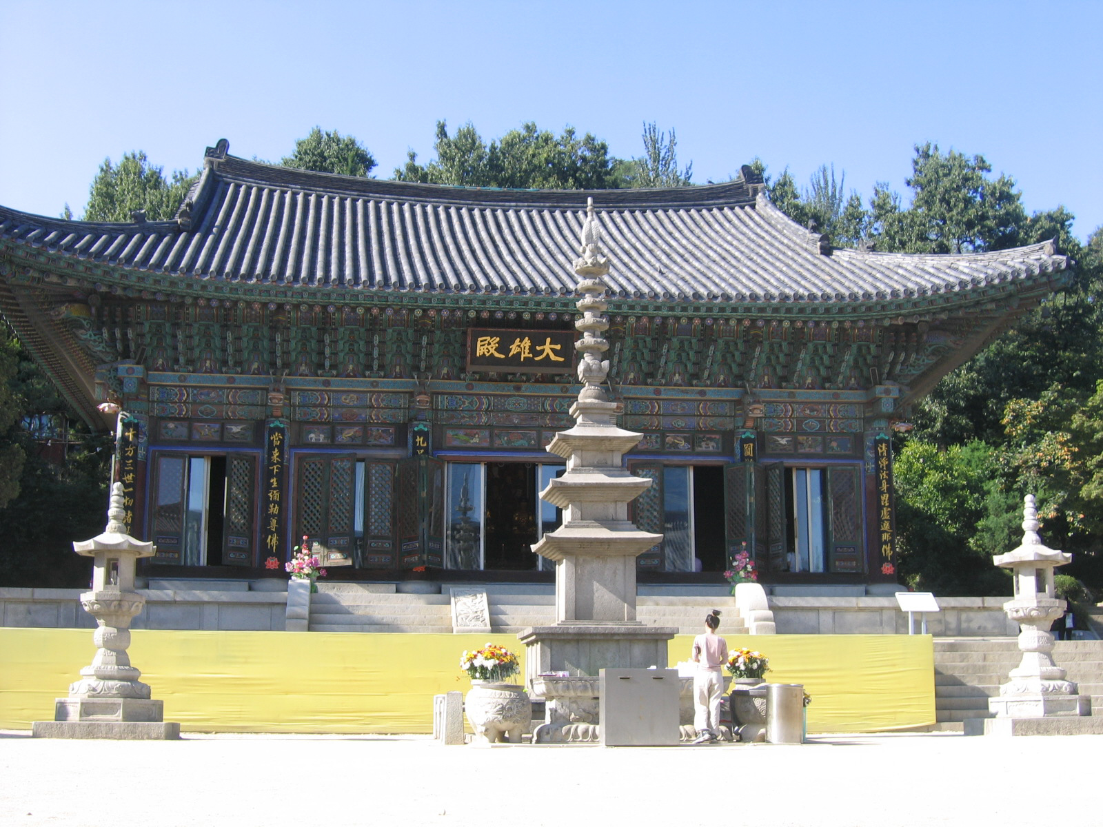 Bongeunsa, a Buddhist temple of Jogye Order located in Samseong-dong, Gangnam-gu, Seoul, South Korea.